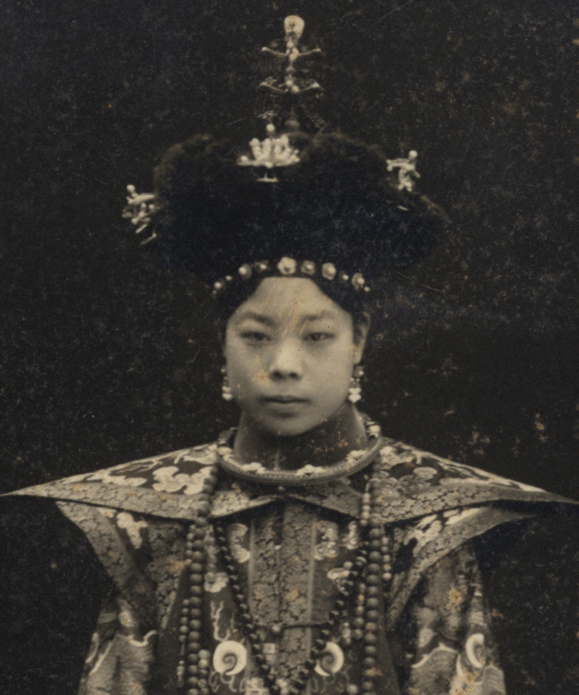 Wenxiu, concubine of Emperor Puyi, in her formal court costume